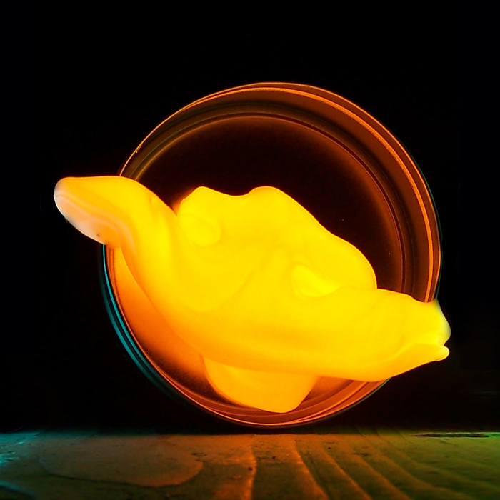 Glow in the dark Thinking putty